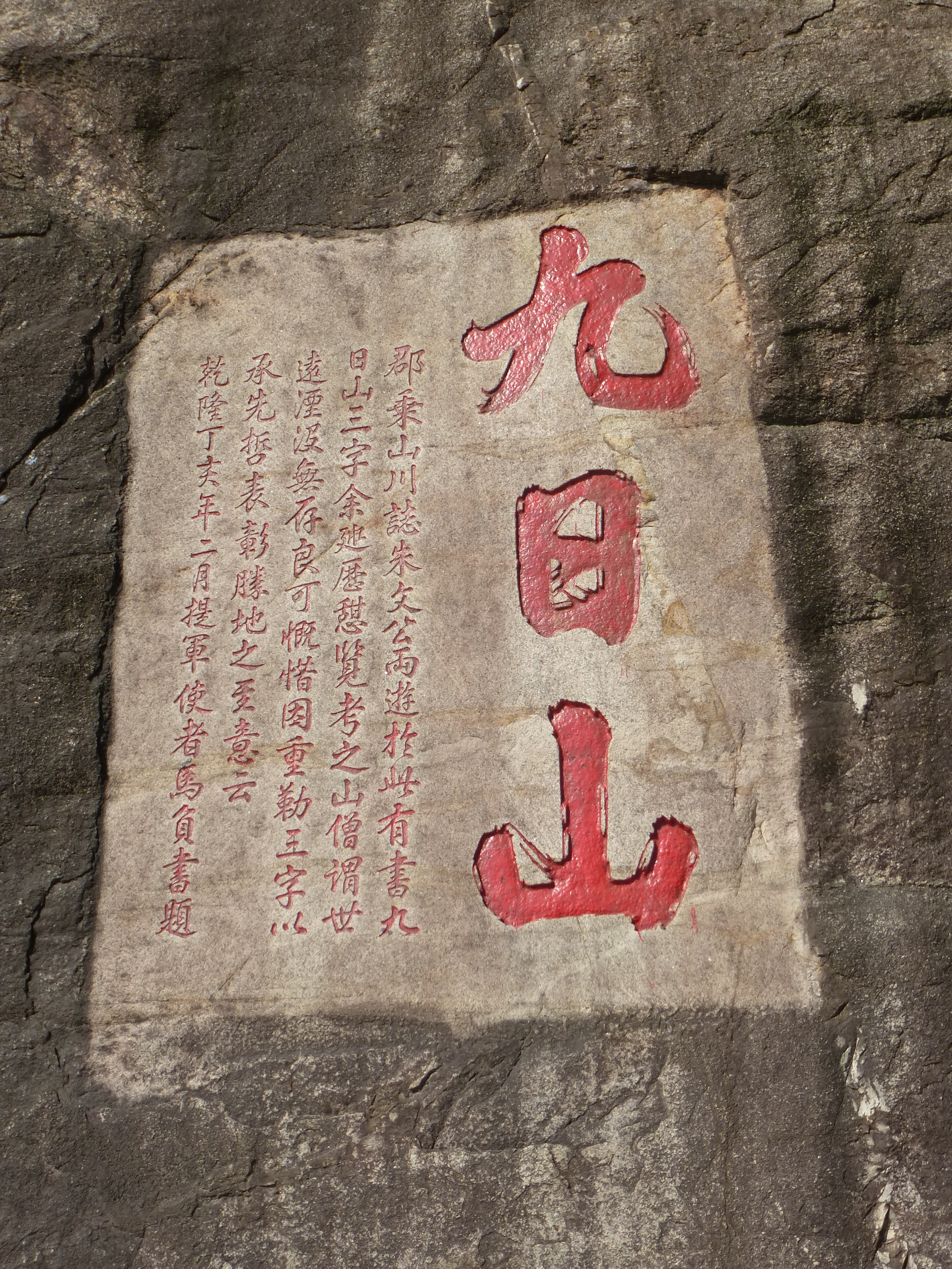 Jiuri Mountain